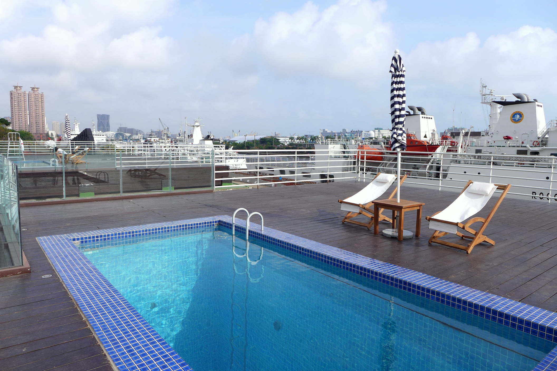 The Pier-2 Swimming Pool Artwork